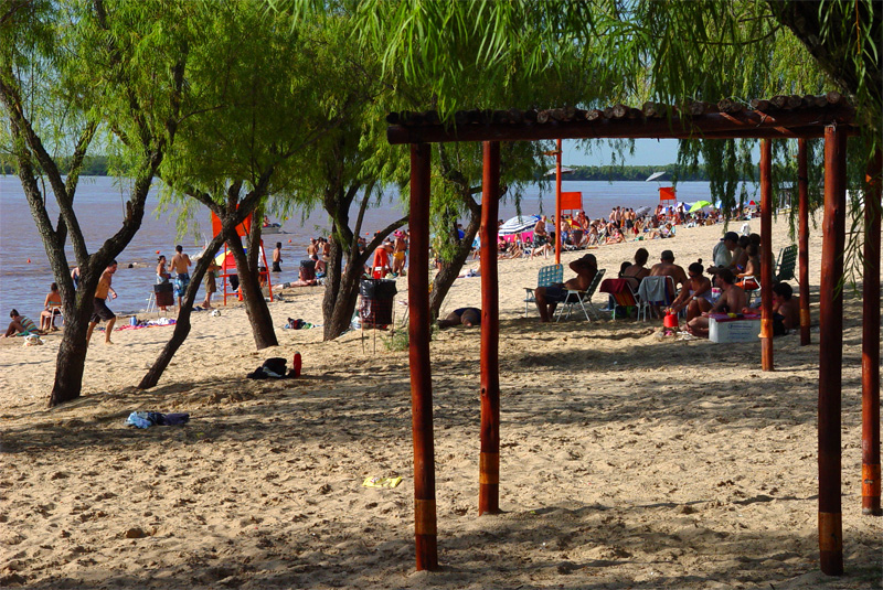 Villa Urquiza